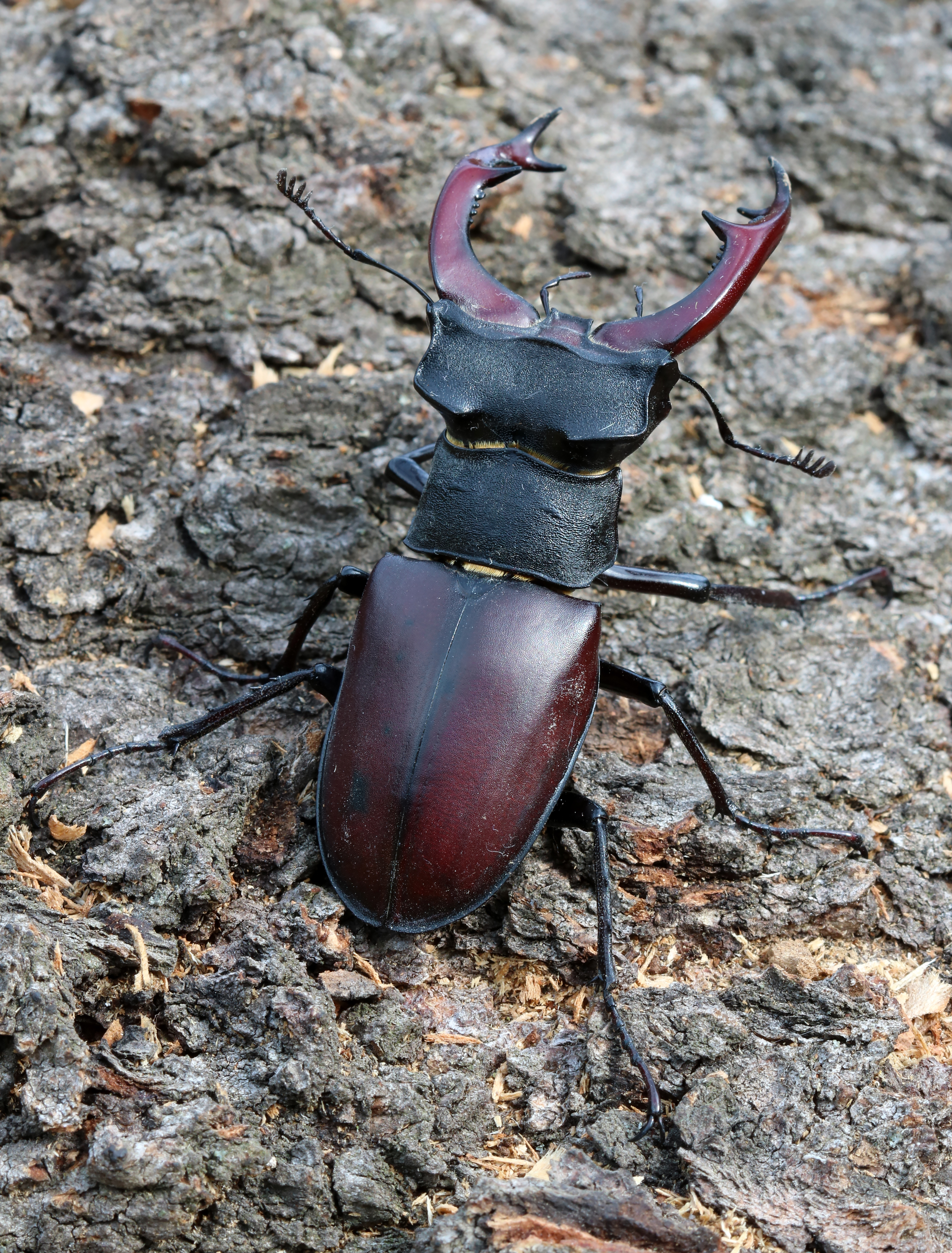 Stag beetle (Lucanus cervus) male. Ukraine, Vinnytsia Oblast, Vinnytsia Raion.